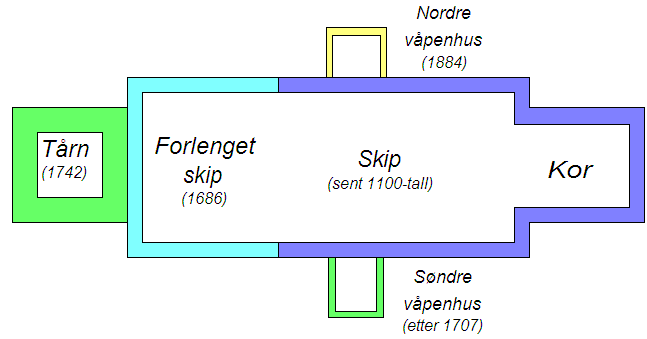 Plan of Our Lady's church, Trondheim, Norway, with overview of building periods.